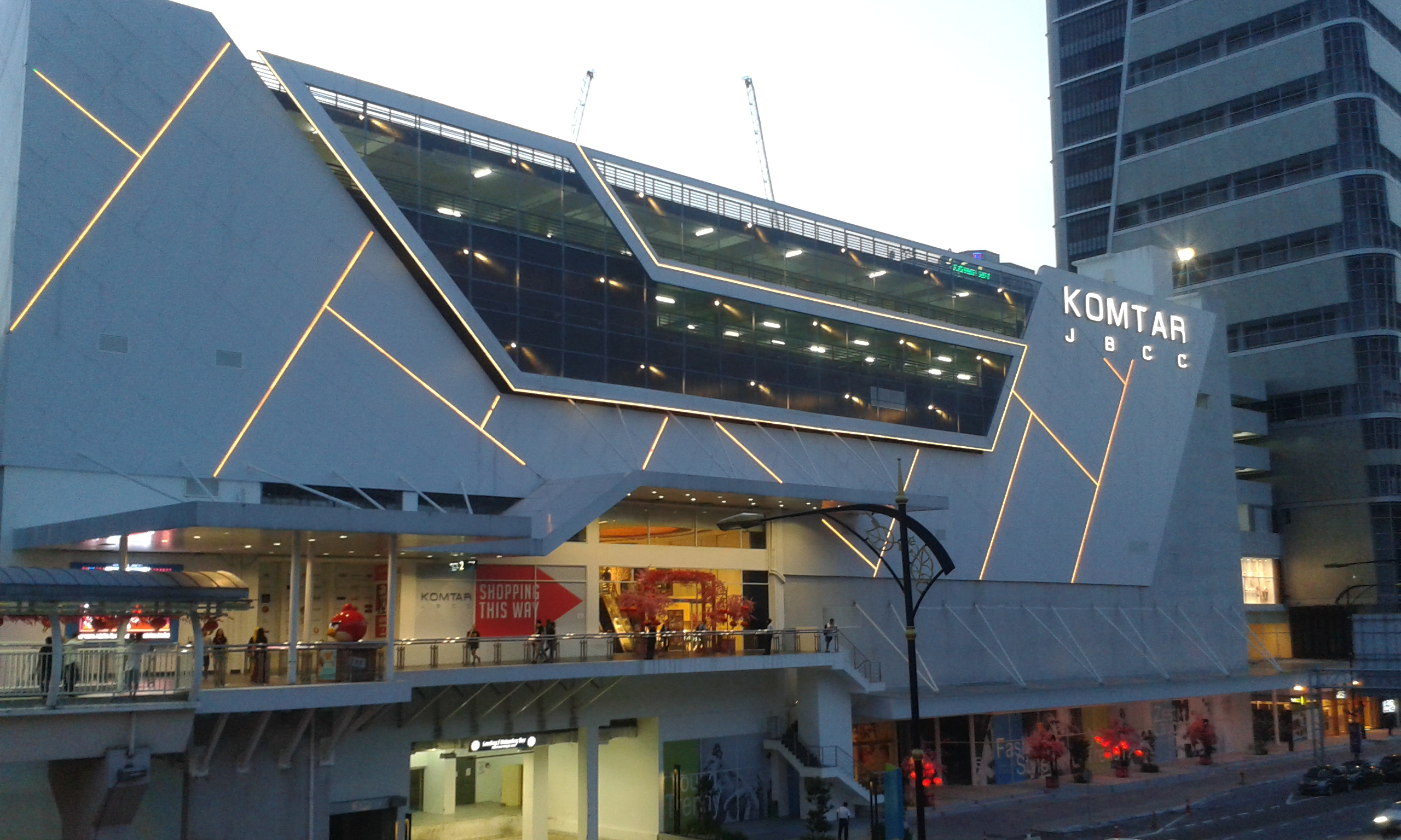 Komtar JBCC Shopping Mall, the building on the right is the original Komtar Building